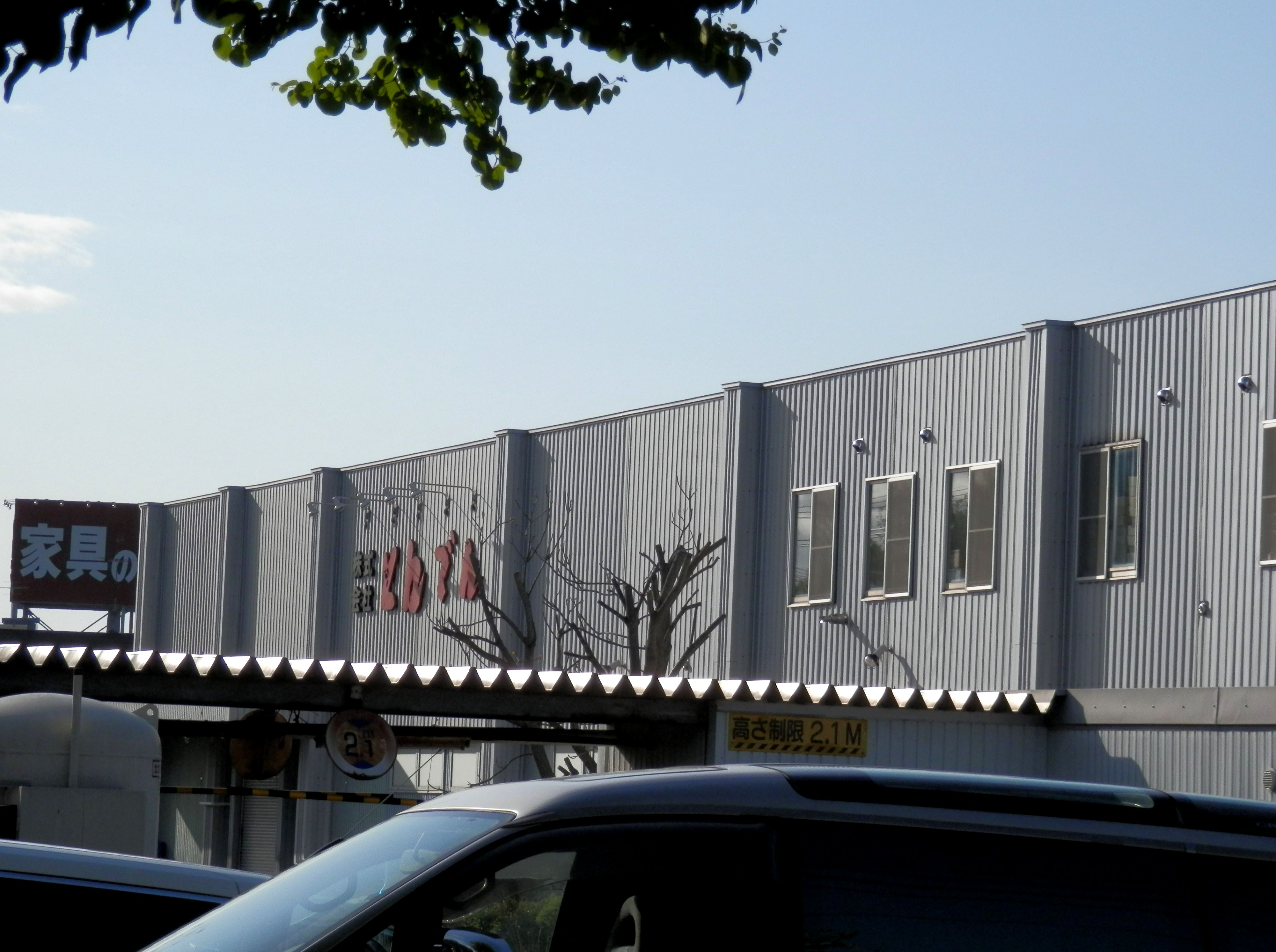 Tonden Factory in Eniwa, Hokkaido (producing food for Tonden restaurants across Japan)